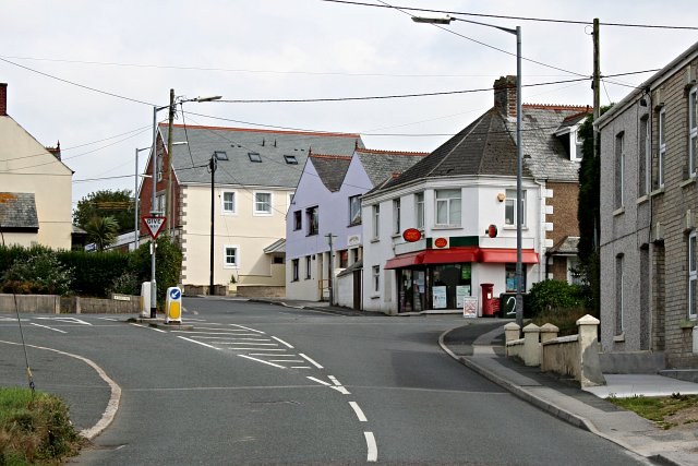 St Columb Road. This photograph shows the road junction which might be regarded as the centre of the village of St Columb Road. The village takes it name from the female virgin Saint St Columba . The village was originally known as 'St Columba's Highway' a reference to the belief she passed through the area on her way to her martyrdom at the nearby hamlet of Ruthvoes